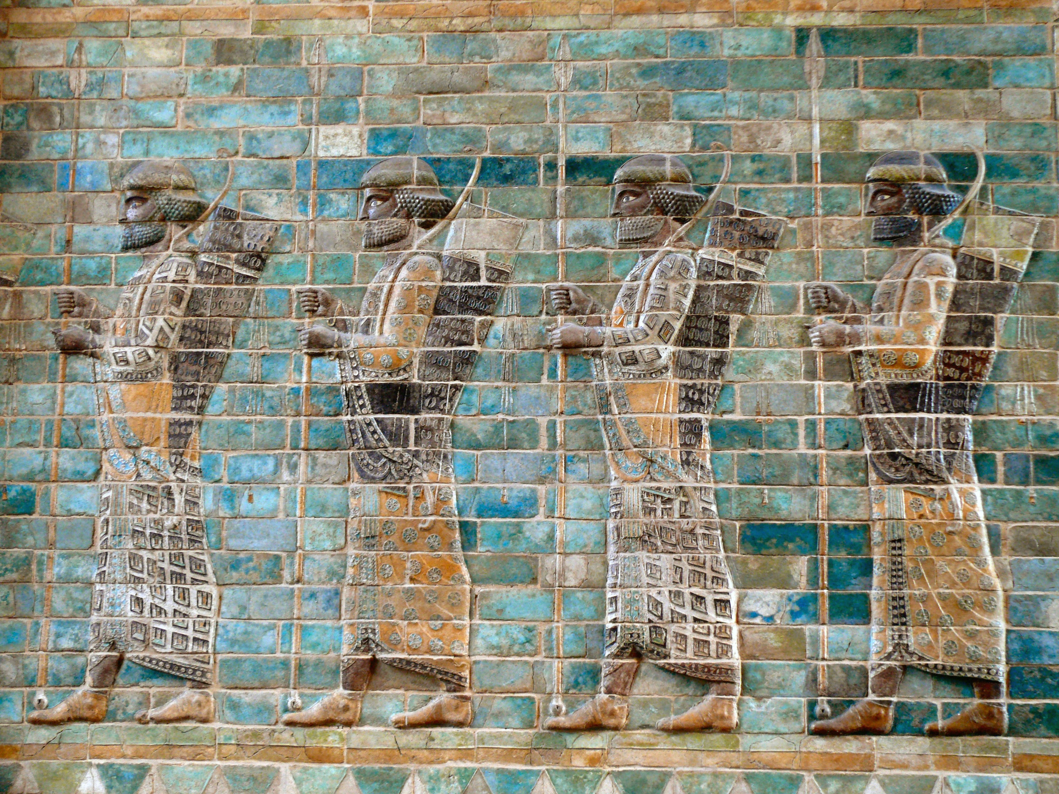 4 of the Louvre Museum melophores (immortal persian guard) from the famous glazed bricks friezes found in the apadana (Darius the Great's palace) in Susa (Shush) by french archeologist Marcel Dieulafoy and brought in Paris. Such polychromic friezes used to decorate the Achaemenian king's palaces in their capitales of Shush, Ecbatan, and Persepolis. According to the ancient greek scholars, the royal troopers were 10000, any dead being straight away replaced explaining their name of immortals. Only persian and median nobles could access such function. They constitued sections of 1000 soldiers, armed with archs, shields, and lances, each section being commanded by officers named chyliarchs. According to Historian Pierre Briant who opposed the generally admitted idea derived from the greek historian's reports and despite their rich and colorful uniforms, these soldiers were neither a parade army nor some fastuous guard units, but elite fighters who were engaged in most of the empire’s military campaigns. Pavillon Sully at the Louvre museum, Paris, France, March 2010